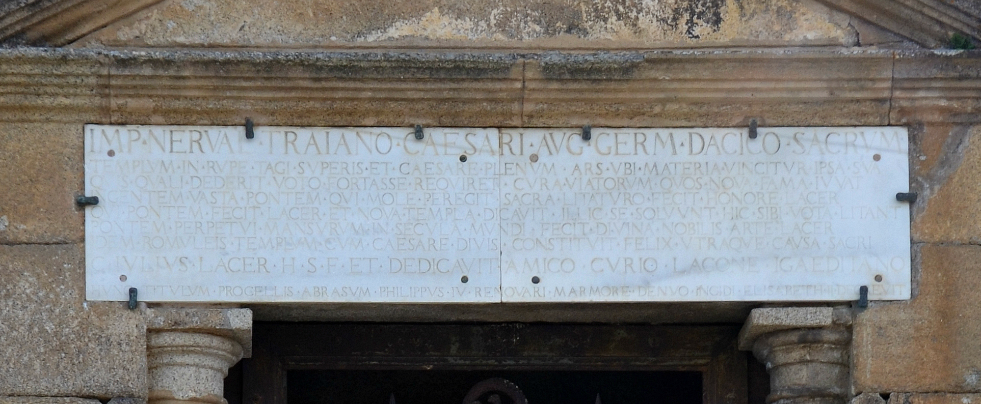 The Alcántara Bridge built over the Tagus River between 104 and 106 AD by a man named Caius Julius Lacer, and dedicated to the Roman emperor Trajan, Spain